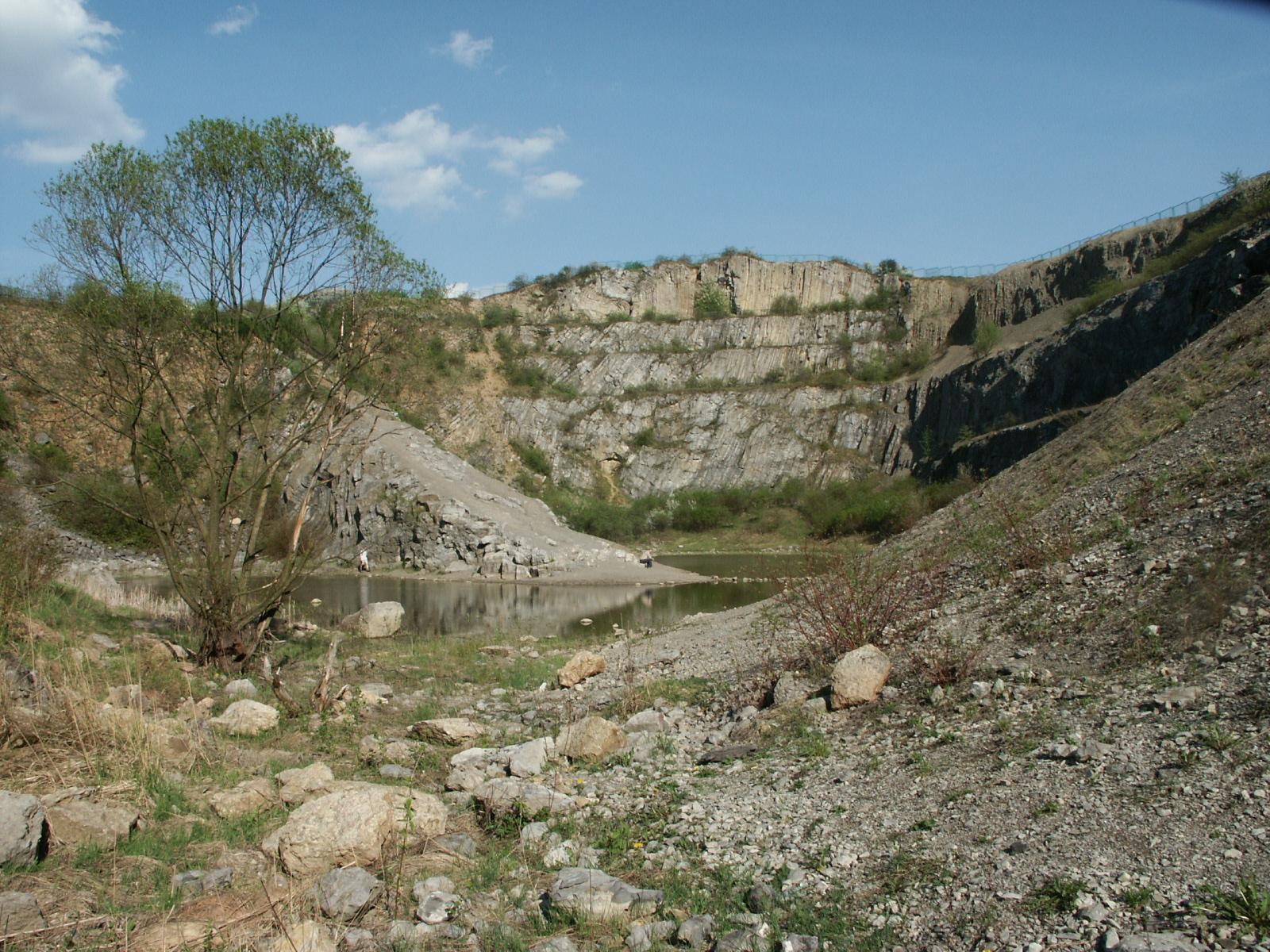 Slichowice nature reserve in Kielce in a former quarry, showing folding of Variscan orogeny period.